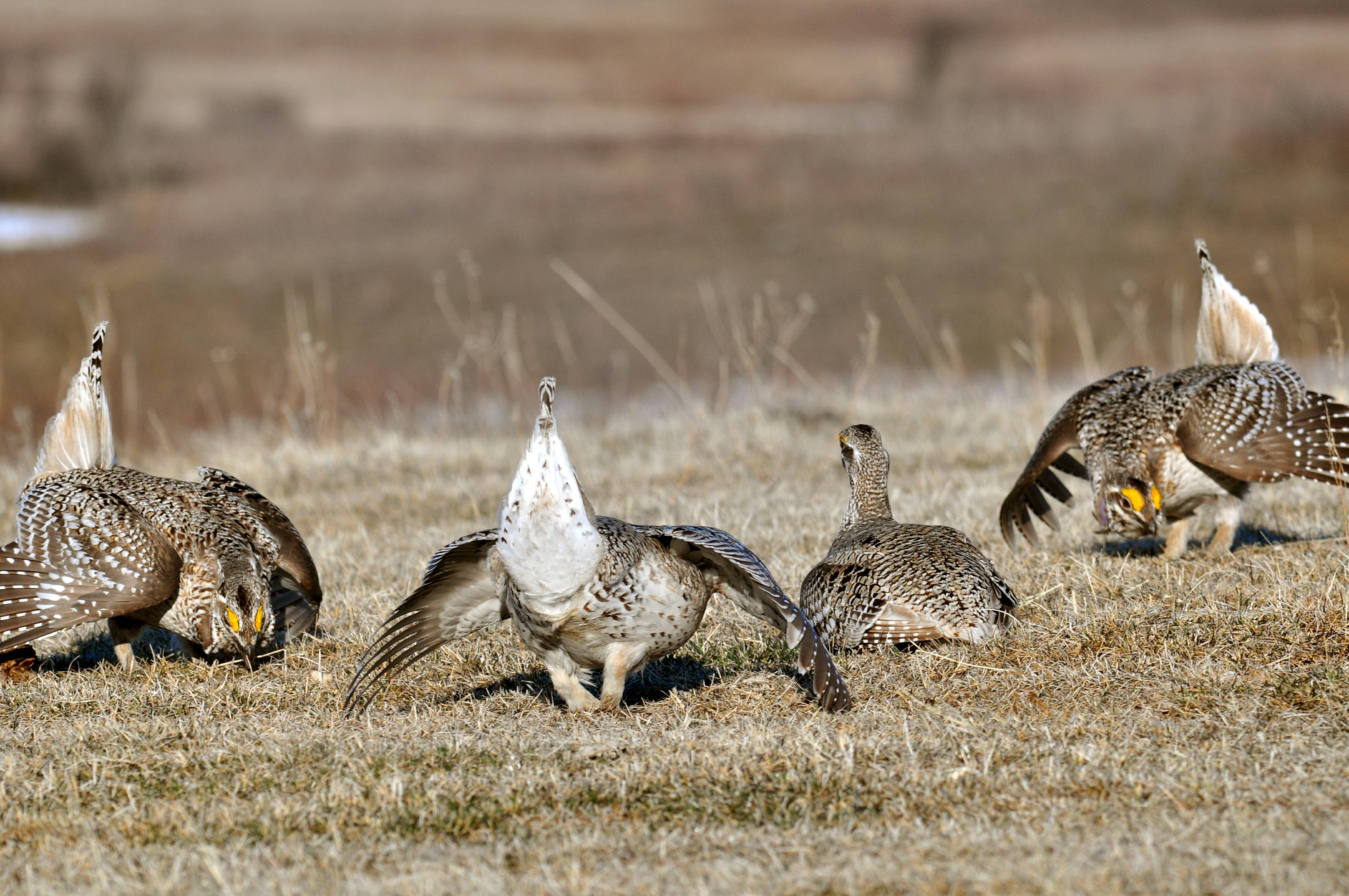 Credit: Rick Bohn